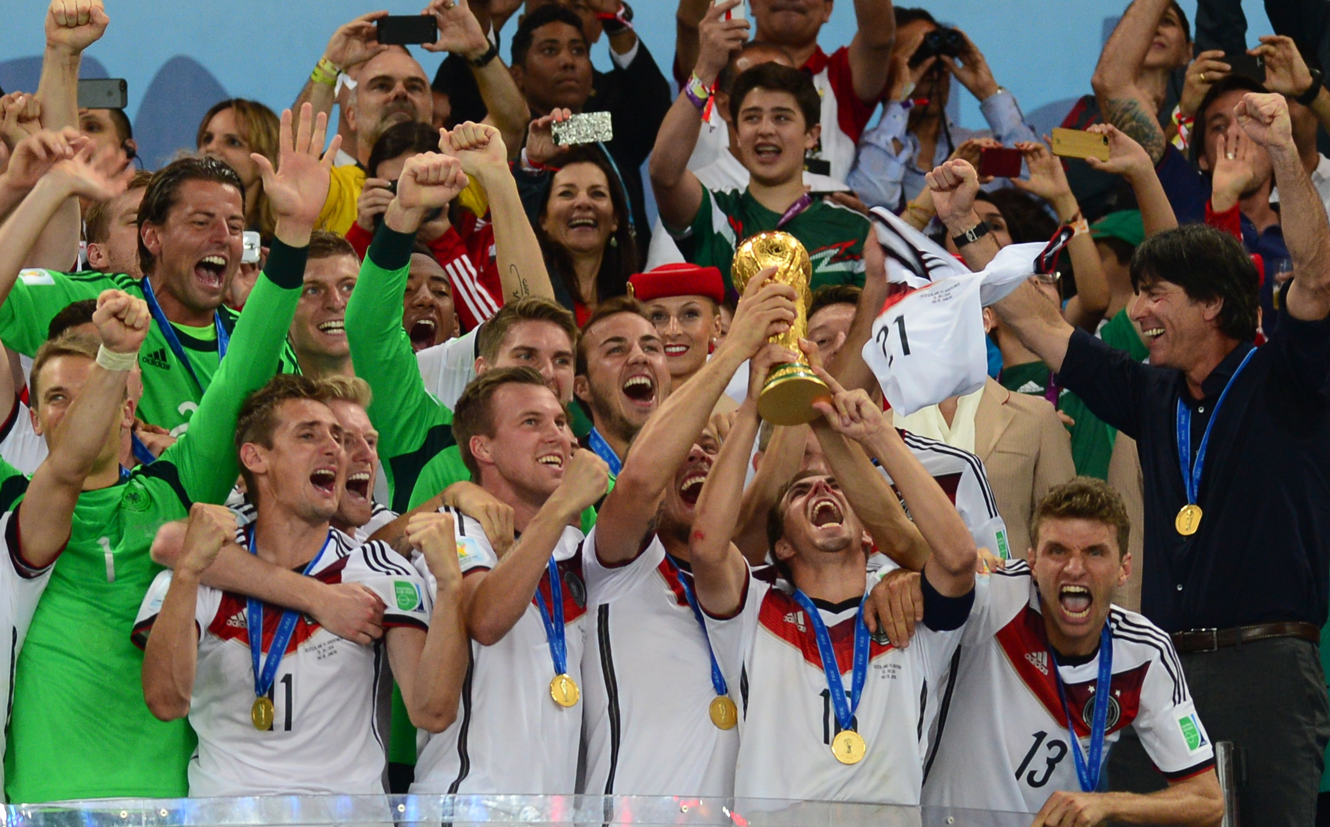 Germany players celebrating the 2014 FIFA World Cup win